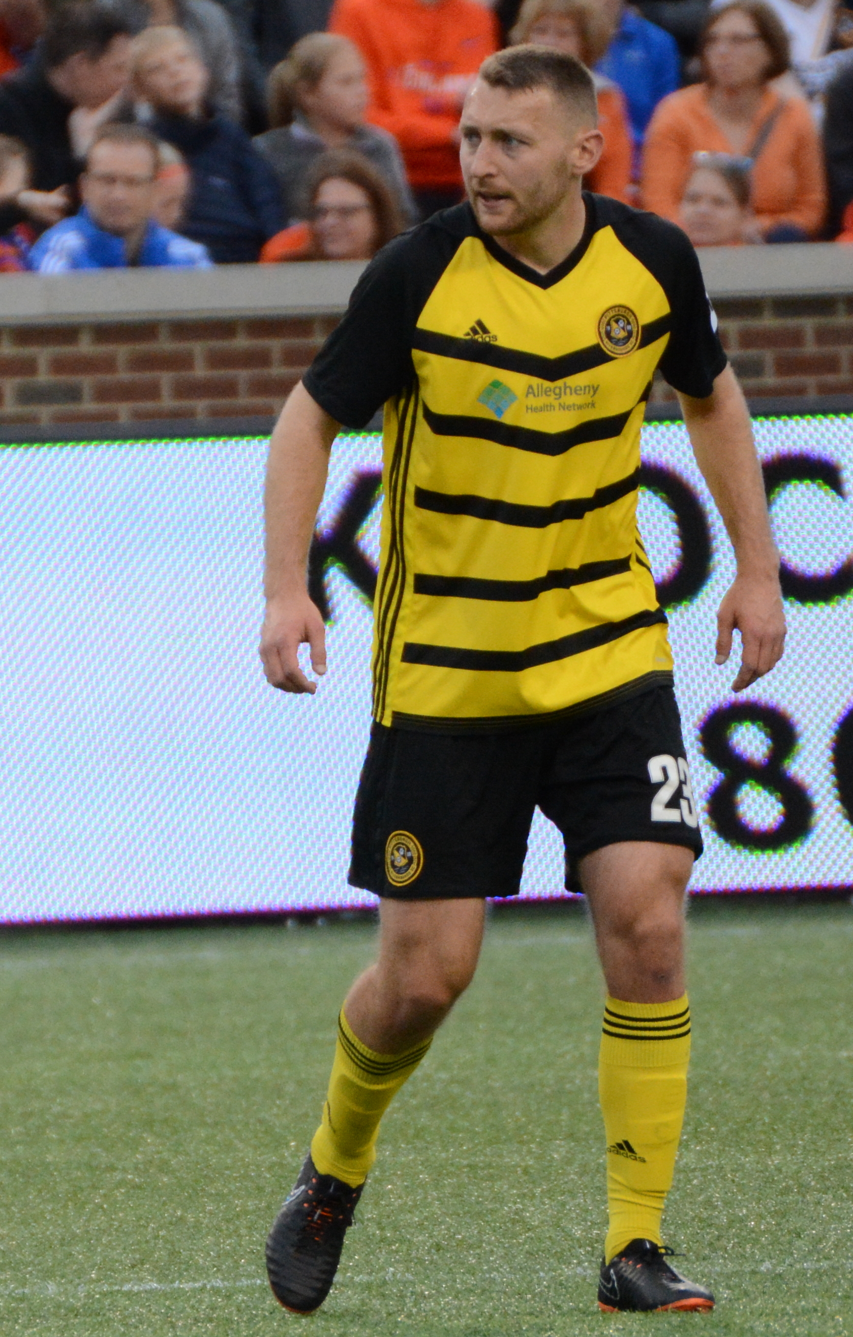 Taken during a USL regular season match between FC Cincinnati and Pittsburgh Riverhounds at Nippert Stadium in Cincinnati, USA on April 21, 2018.